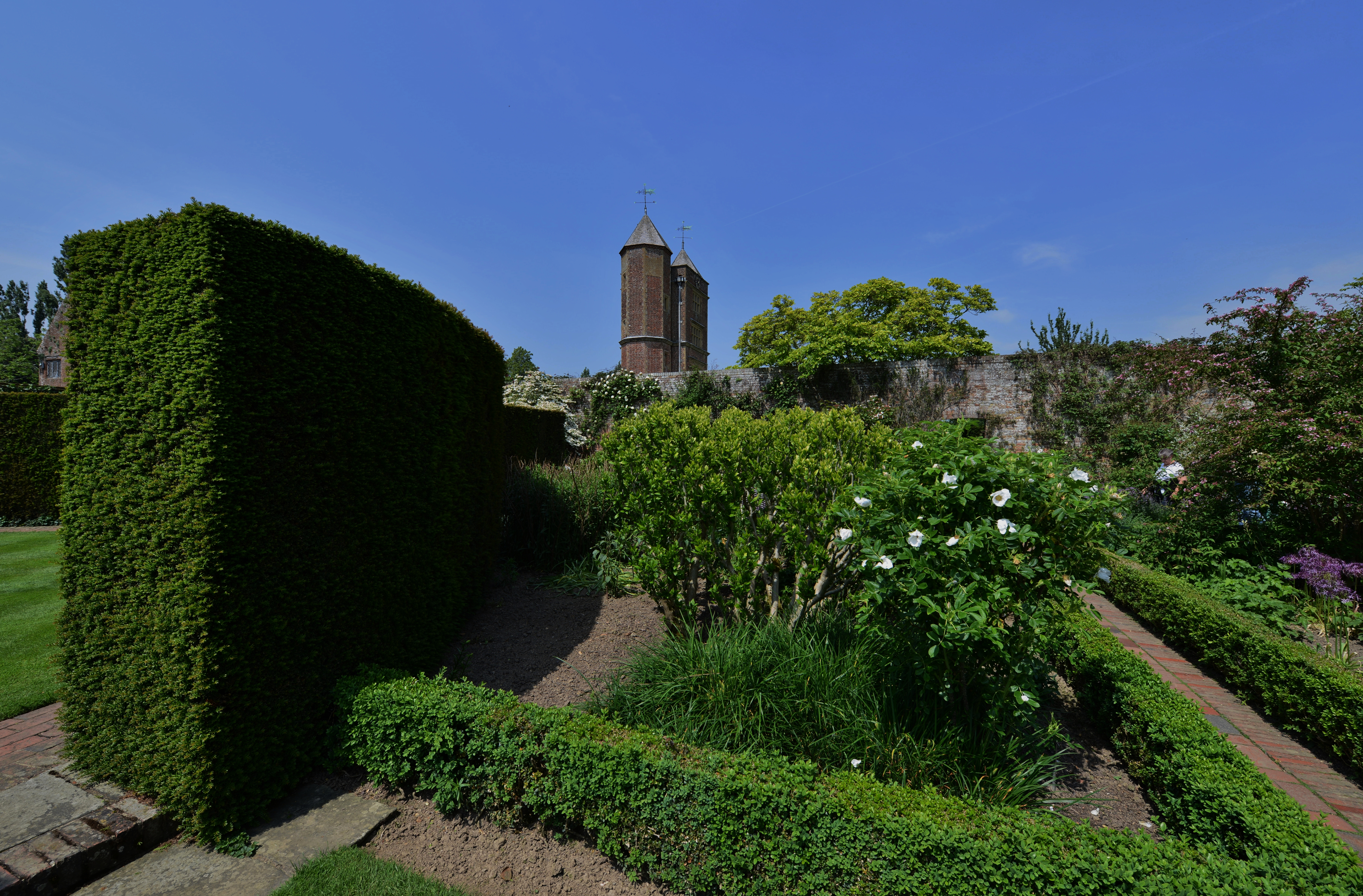 Photo by Michael Garlick